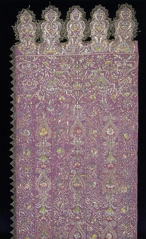 Sash, 1635-1642 V&A Museum no. 1509-1882 Techniques - Silk, embroidered with silks, silver and silver-gilt threads, trimmed with silver and silver-gilt lace Artist/designer - Unknown Place - England Dimensions - Length 266.7 cm, Width 68.6 cm Object Type - Sashes such as this were as much a military necessity as they were fashionable dress. First worn to distinguish opposing combatants on the battlefield, they became accessories for men during the middle years of the 17th century. This is a very richly decorated example. Similar lavishly decorated scarves can be seen in portraits from the 1630s to 1650s, worn with buff coats and breastplates. Materials & Making - The sash is embroidered in satin, stem and long-and-short stitches, with couched work (embroidery in which the thread is held down on the material by stitching) in repeated vertical bands of closely arranged floral patterns. The lower edge has been cut into deep scallops and edged with metal lace.